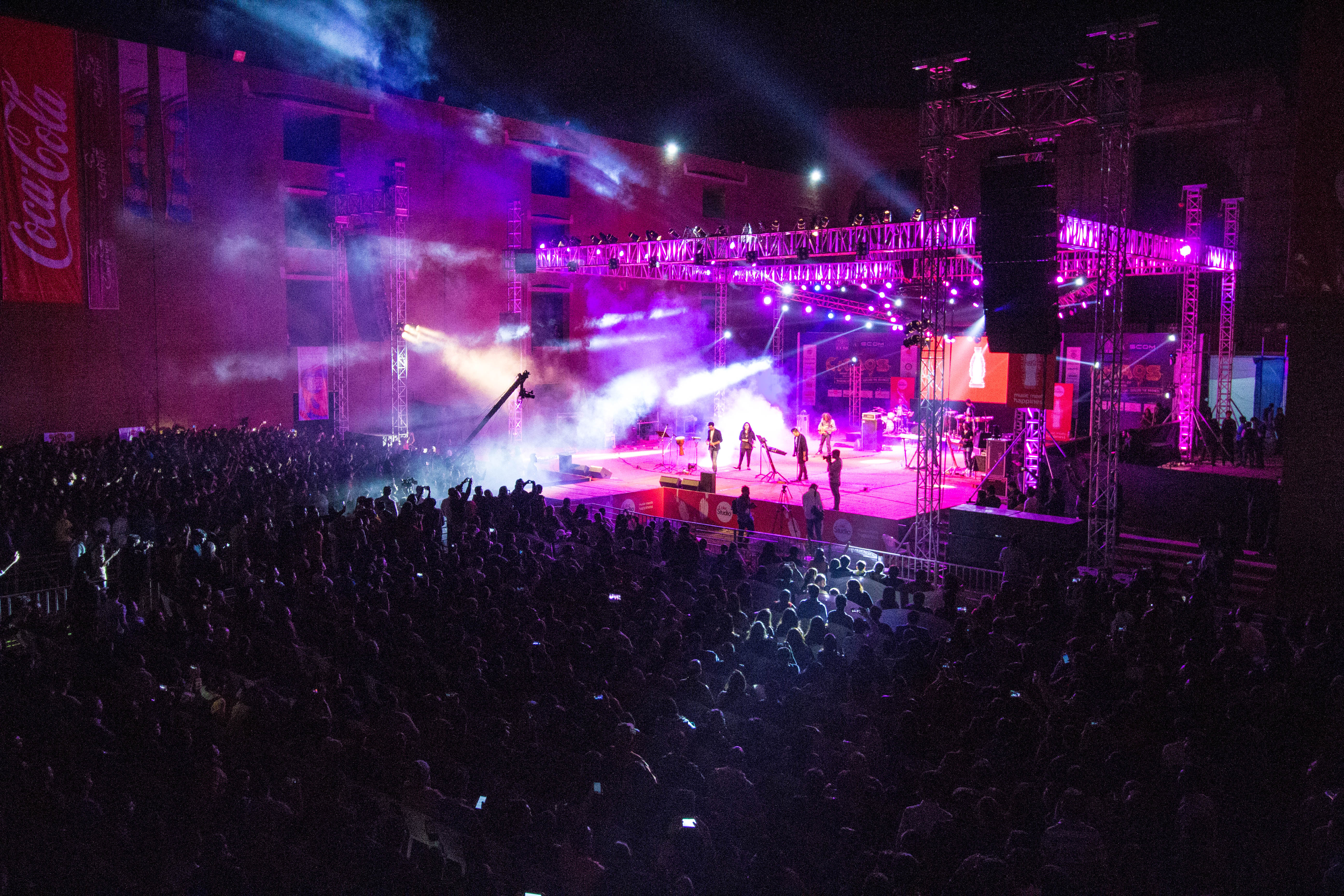 Musical performance during IIM Ahmedabad's cultural festival.